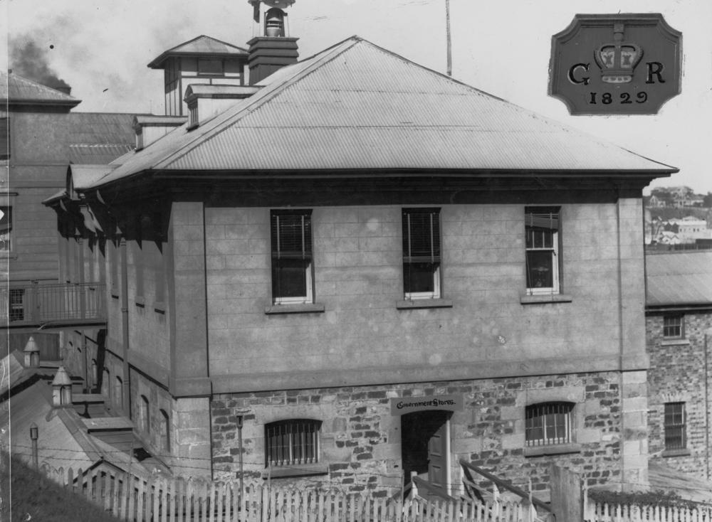 Former Commissariat Stores building in Brisbane, ca. 1928